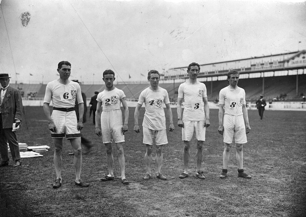 Members of the British athletic team at the 1908 London Olympics, (left to right) Norman Hallows, who won the bronze medal in the 1500 metres, Harold Wilson who won the silver medal in the 1500 metres, and the 3-Mile Team Race gold medallists Joseph Deakin, Archie Robertson and Wilfred Coales.